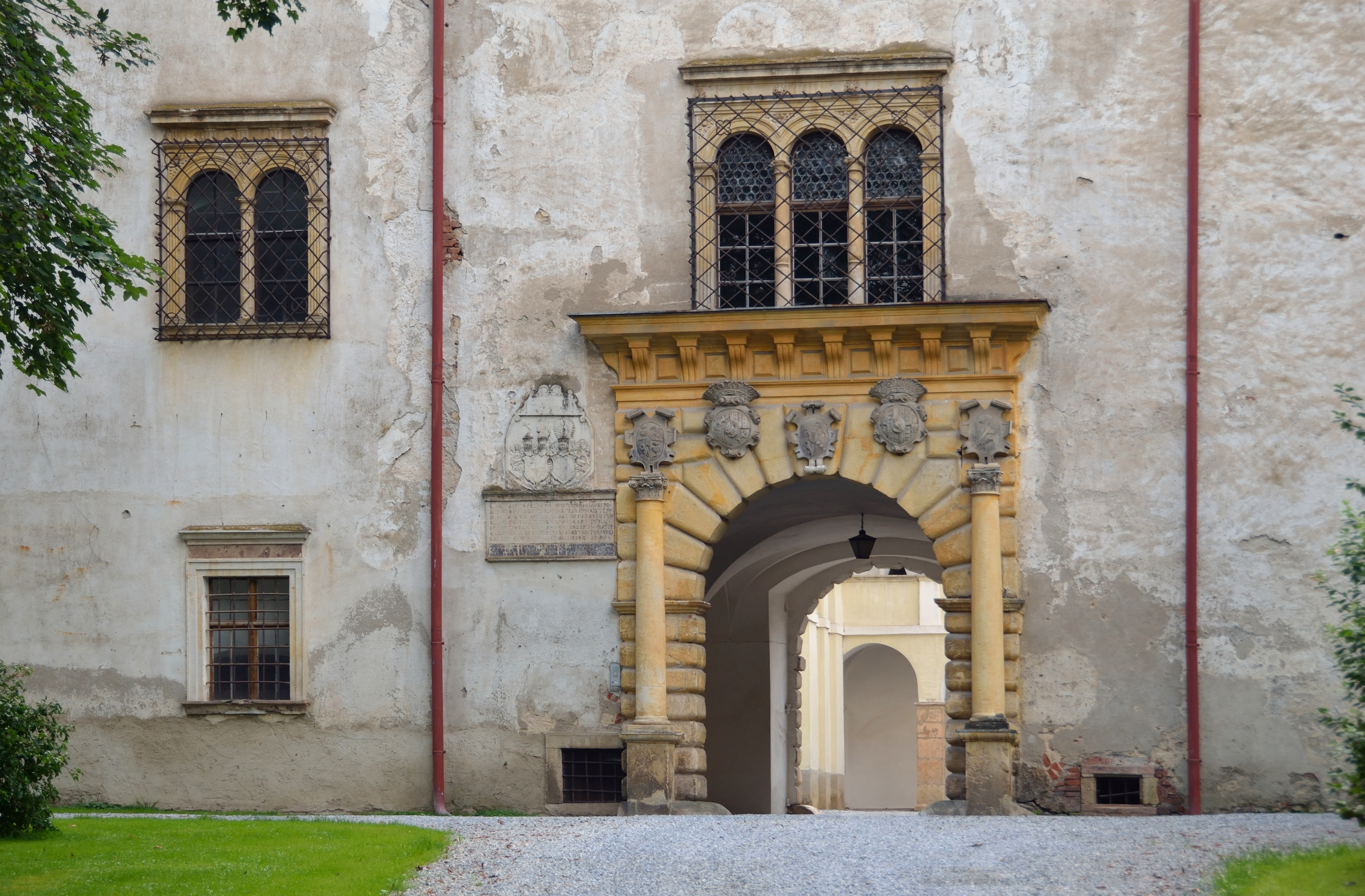 Castle Thannhausen in Oberfladnitz, municipality of Thannhausen.